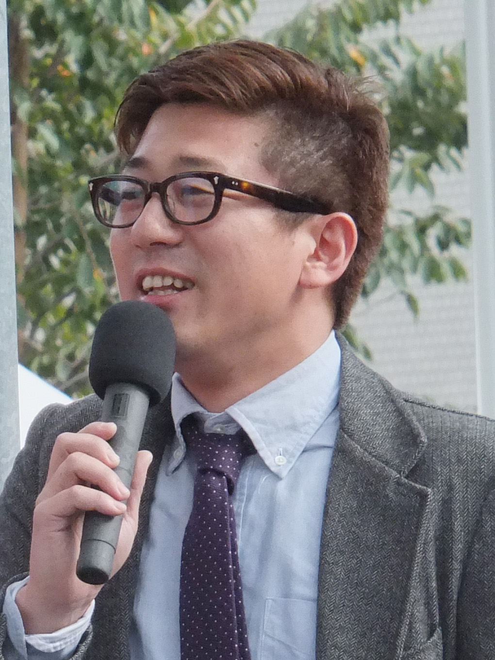 Takuichiro Kobayashi (小林拓一郎), at Nakanihon-Tokai B-1 Grand Prix in Toyokawa